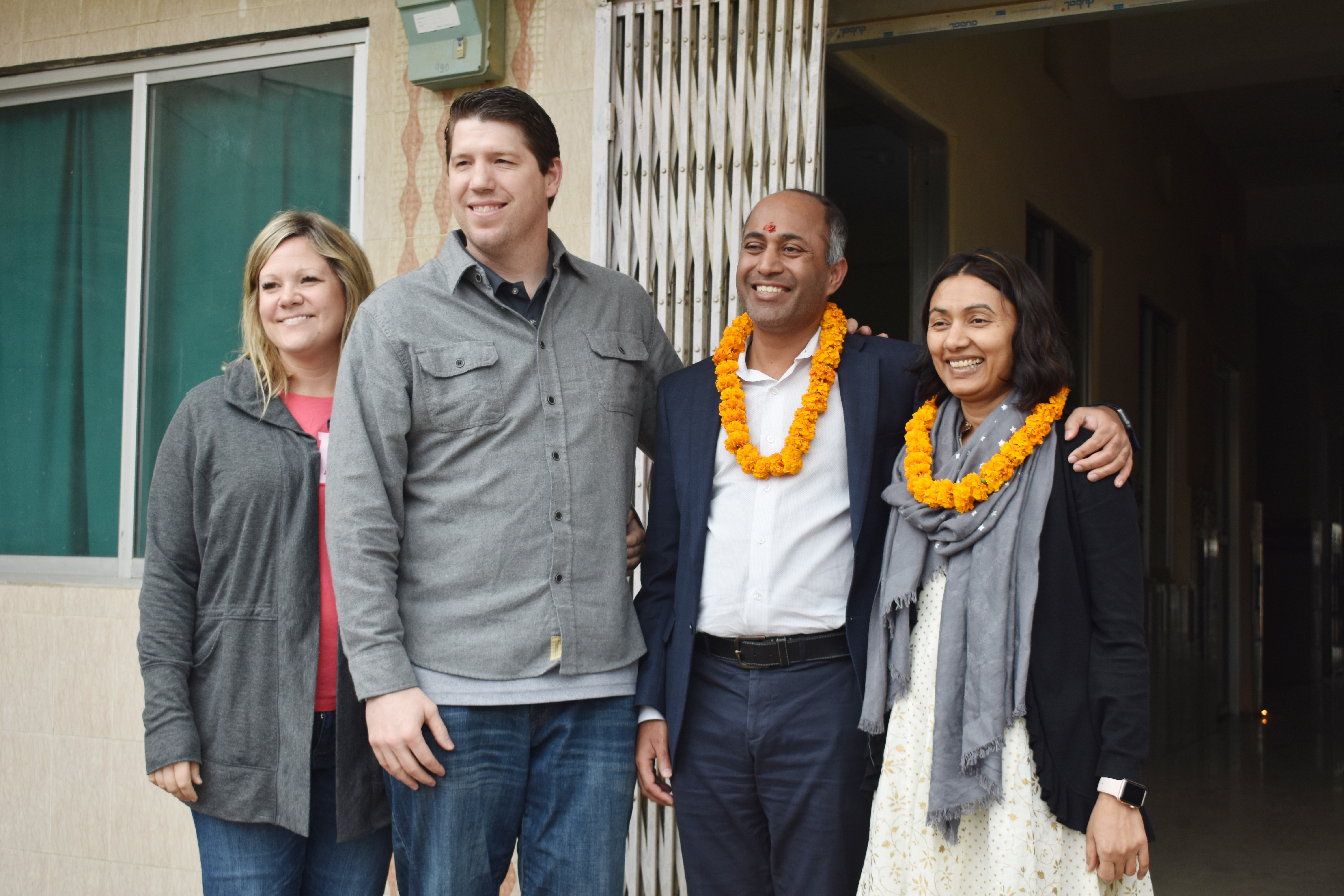 Binaytara Foundation board members and volunteers pose for a photo